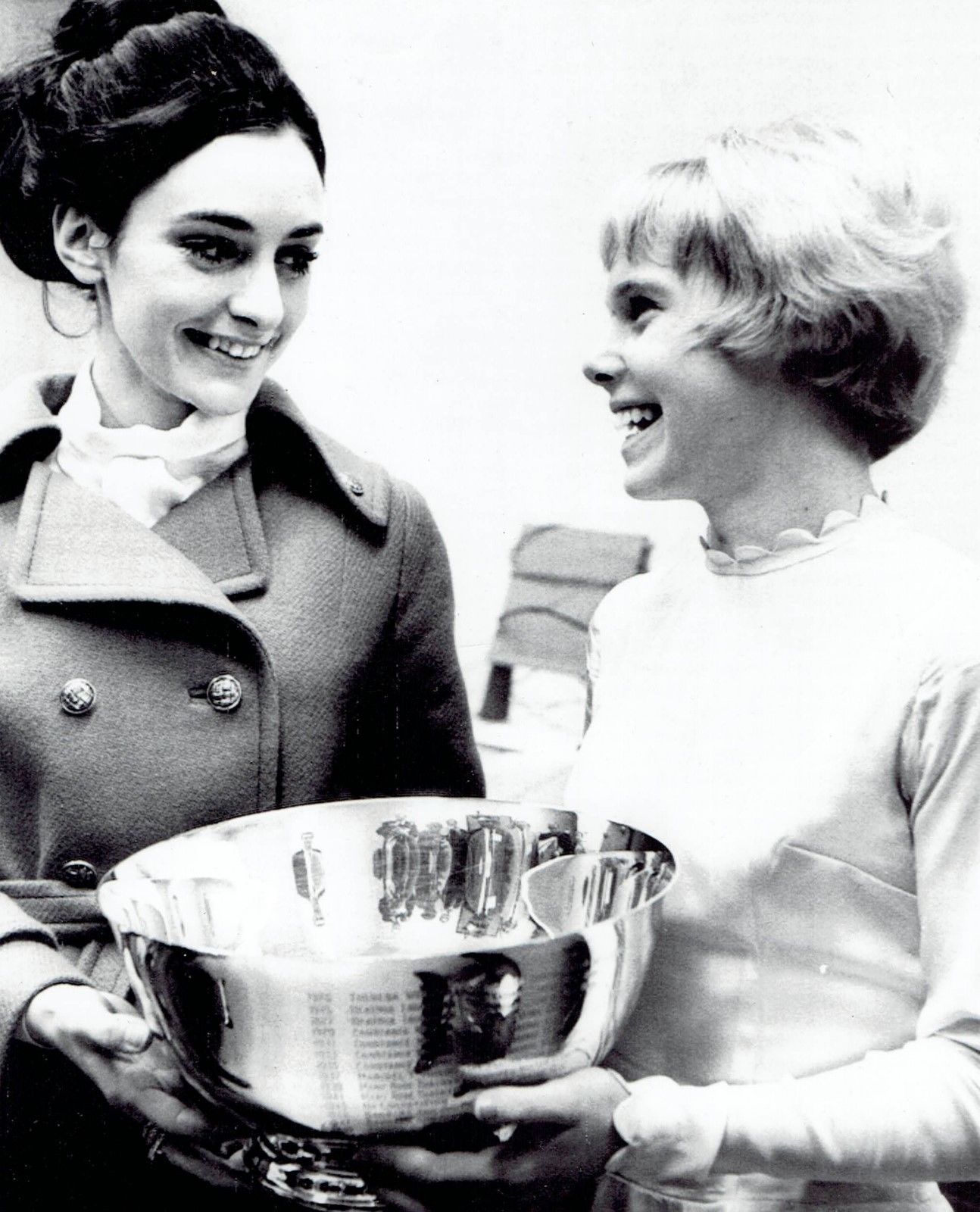 1969 Wire Photo figure skater Peggy Fleming & North American Champ Janet Lynn